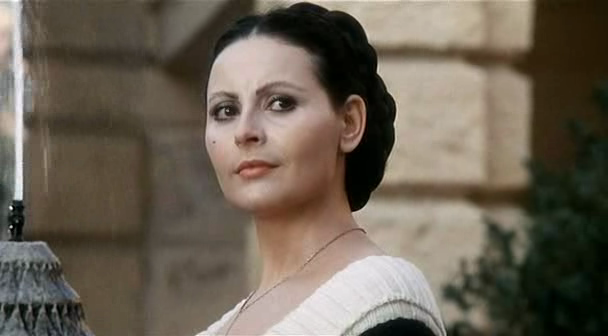 Angela Luce in Addio fratello crudele (1971).